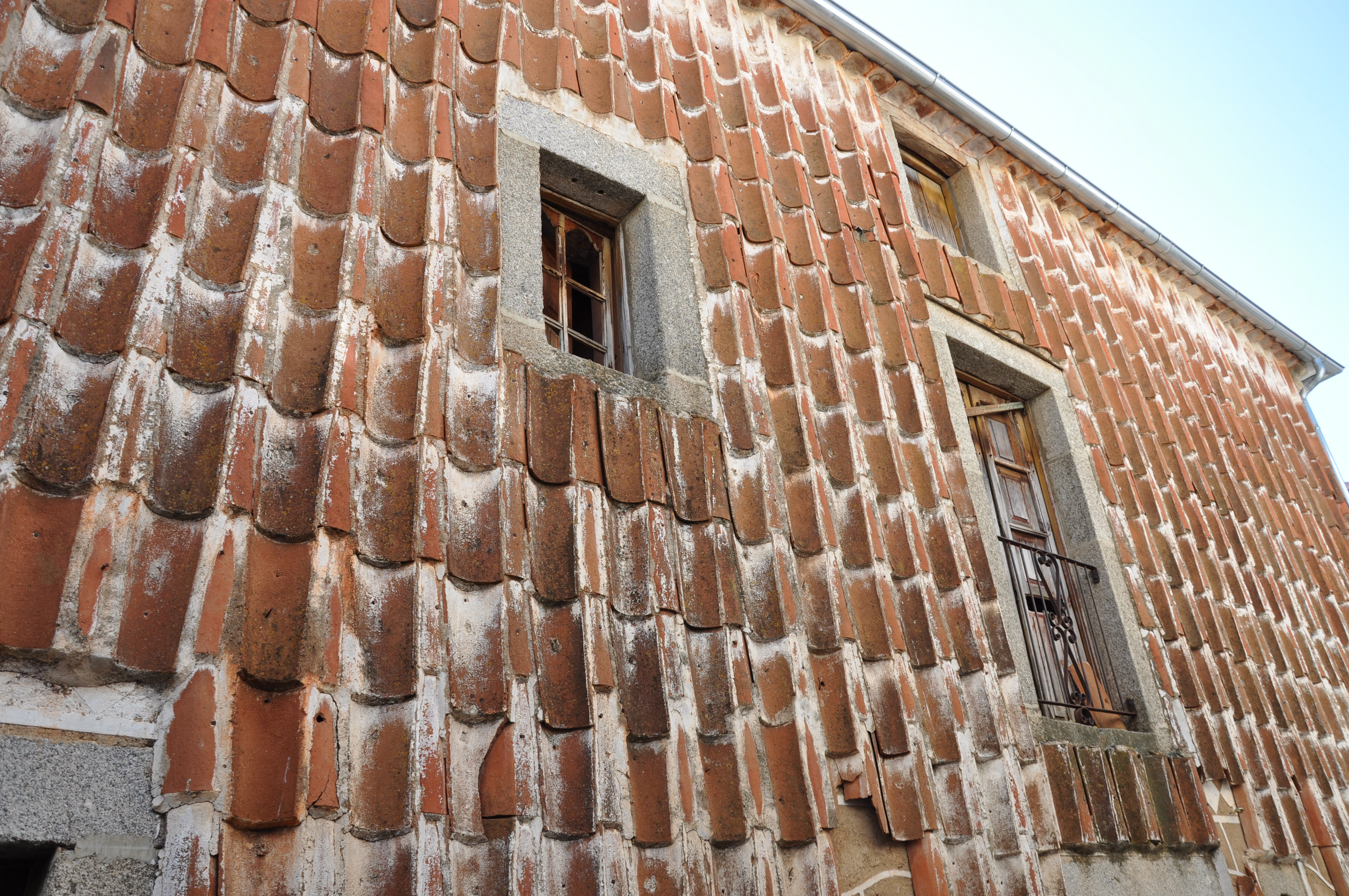 West wall protected with tiles in Becedas, Ávila, Spain